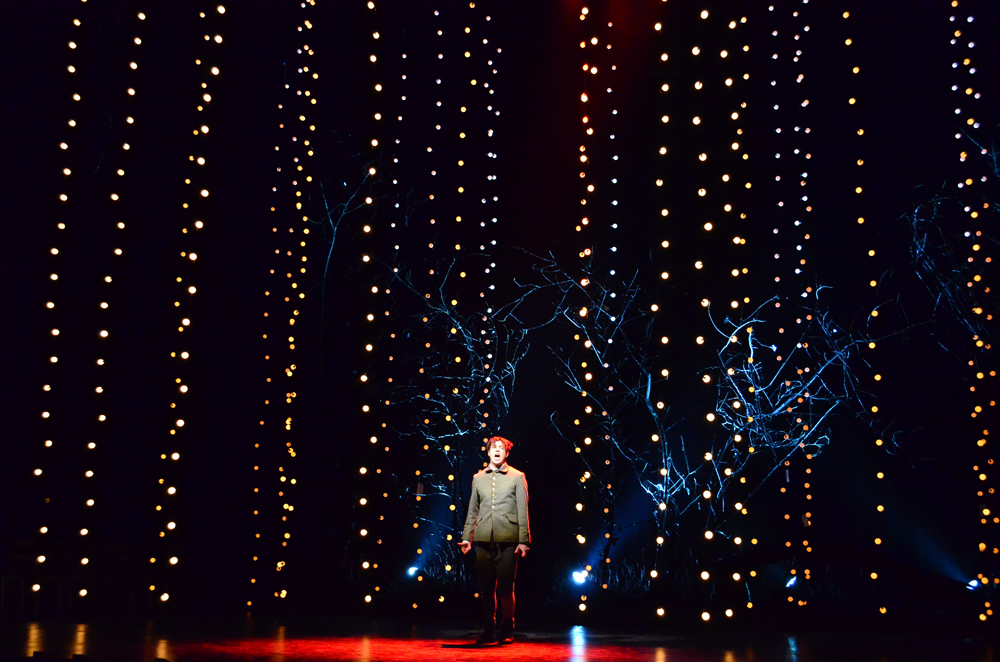 "Don't Do Sadness" from Carnegie Mellon University's Production of "Spring Awakening" Director: Tome' Cousin Musical Direction: Thomas Douglas Scenic Designer: Bryce Cutler Lighting Designer: Dan Efros Costume Designer: Mary Stein Sound Designer: Daniel Lundberg